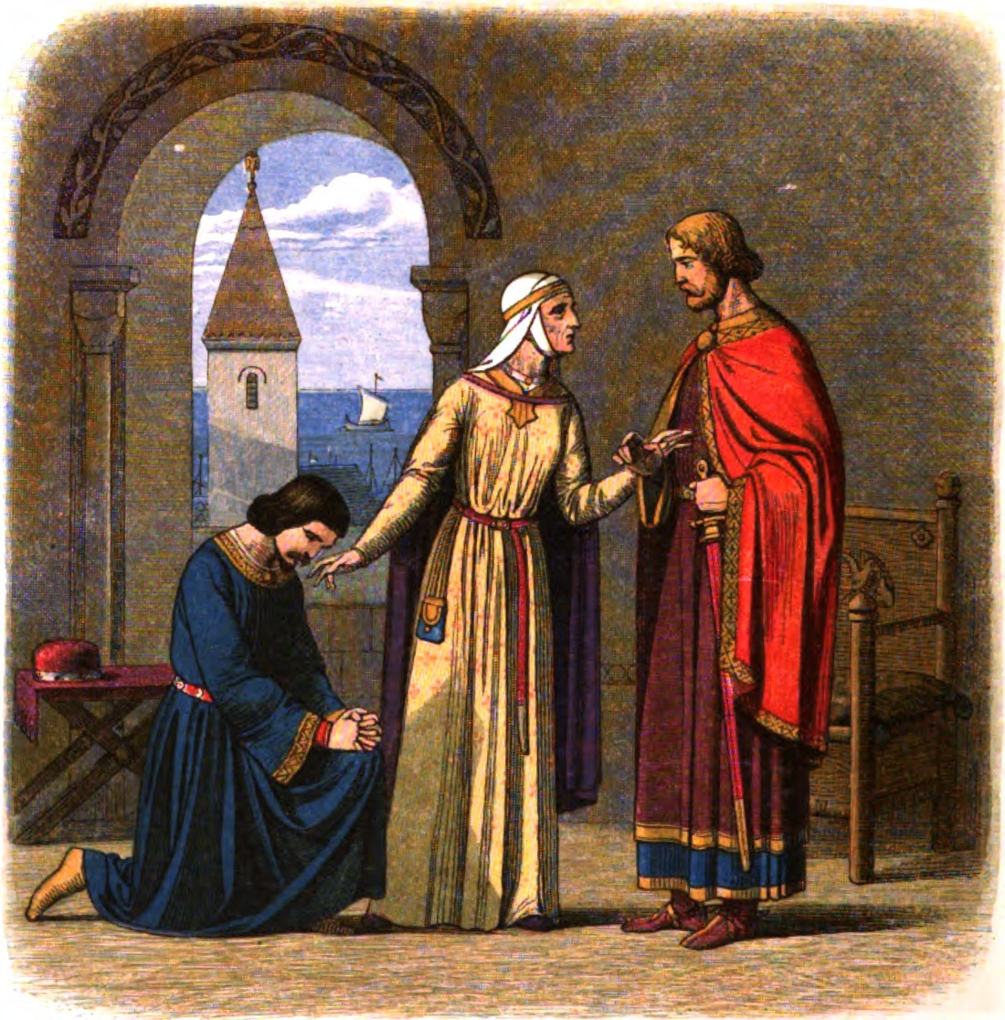 Richard I pardons his brother Prince John at the behest of their mother, Eleanor of Aquitaine.